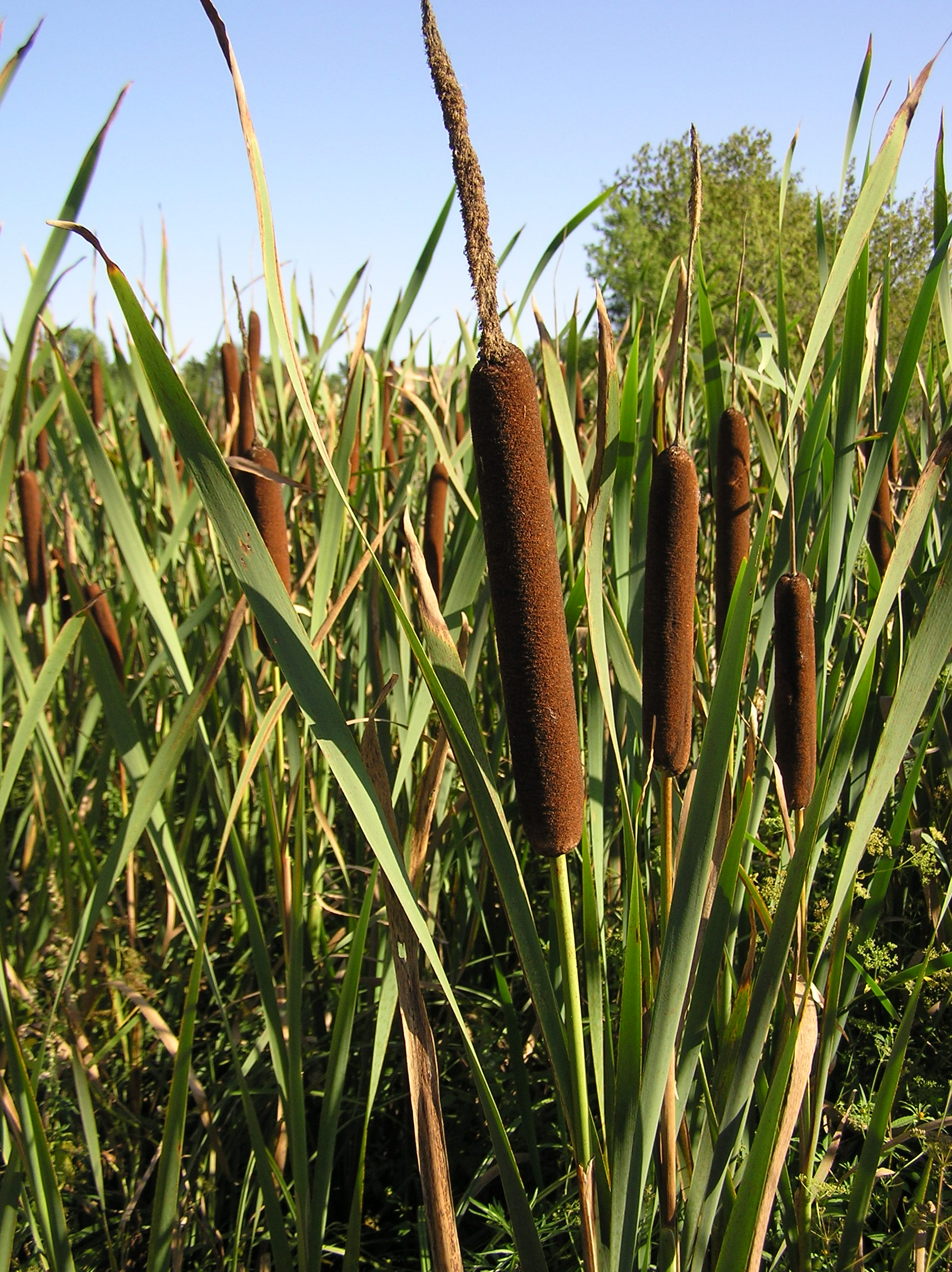 Typha latifolia L. (Bulrush ). Habitat: a ditch along a railway. Vicinity of Saratov City, Russia.